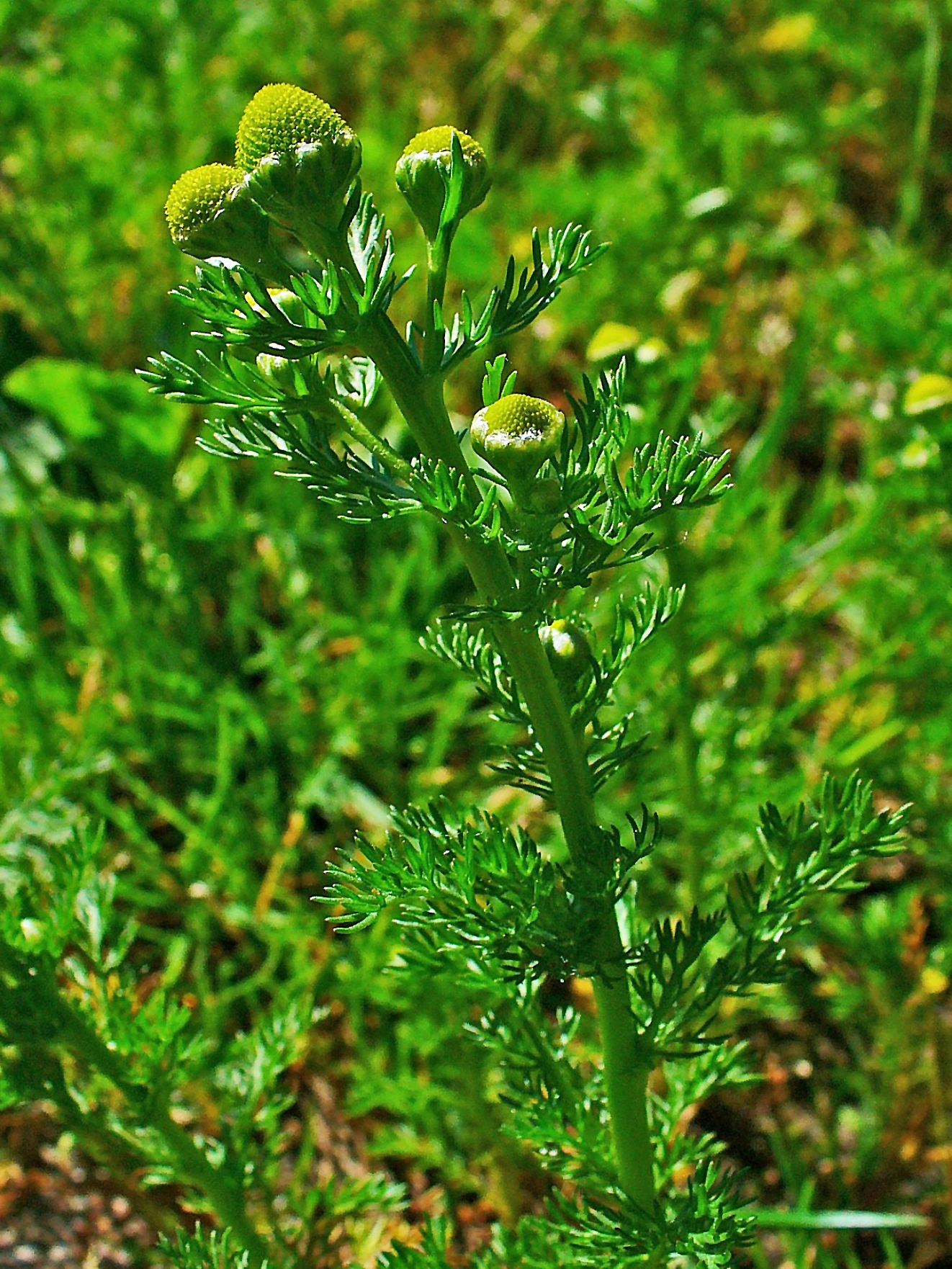 Matricaria discoidea, Asteraceae, Pineapple Weed, Disc Mayweed, habitus; Karlsruhe, Germany.